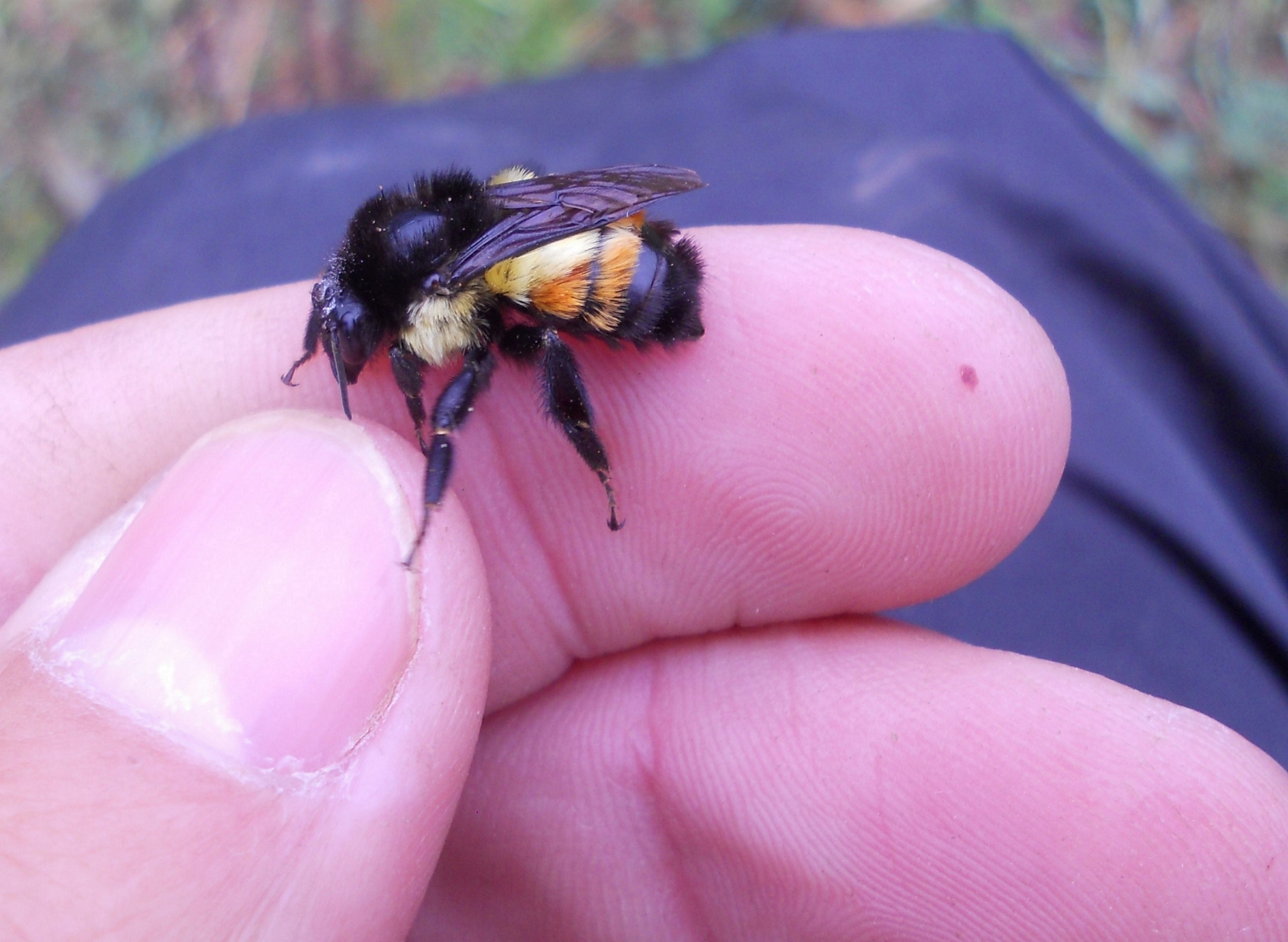 B. ephippiatus resting in hand after hard work foraging. Cloud forest Guatemala.